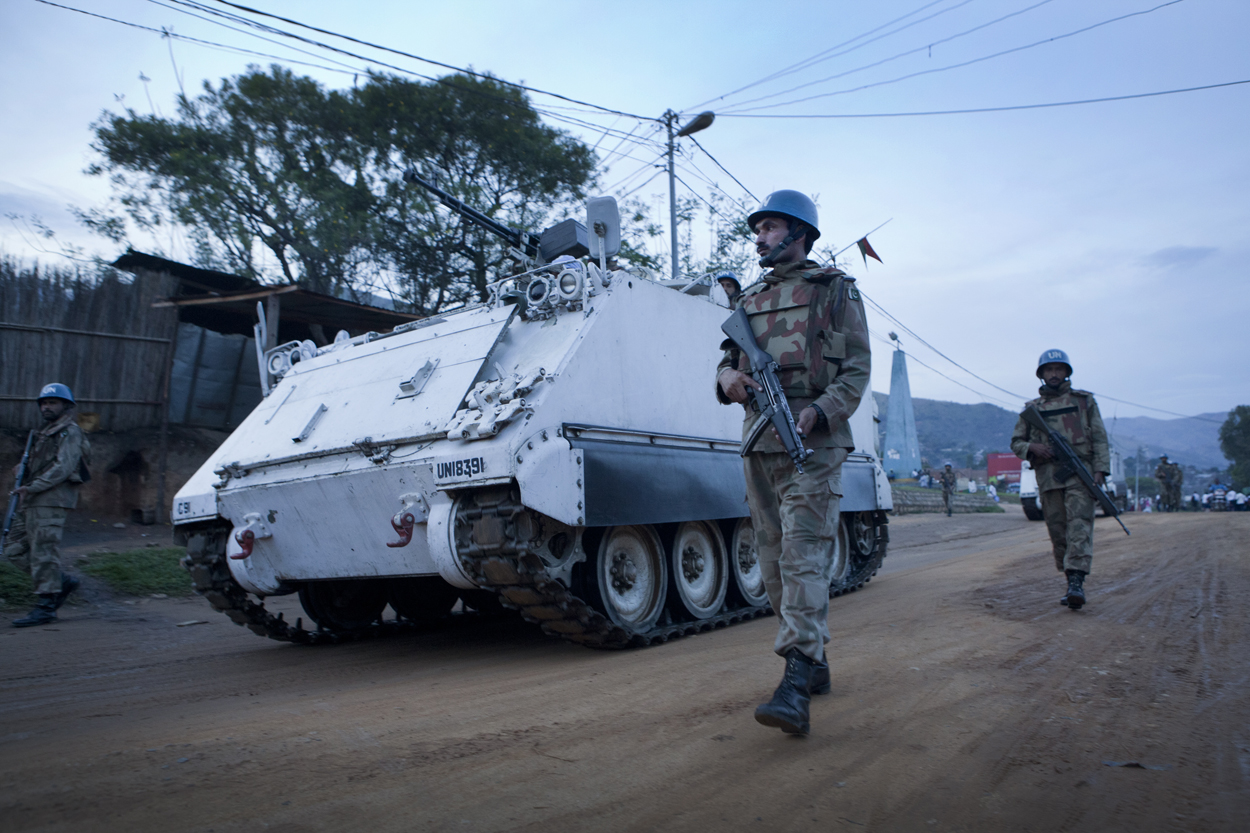 MONUSCO Pakistany Peacekeepers patrolling the streets of Uvira in South Kivu , the 22nd of October 2012. © MONUSCO/Sylvain Liechti